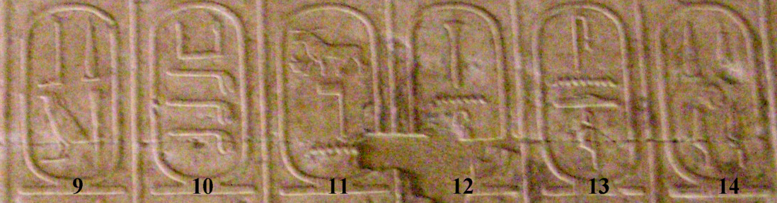 Royal cartouches 9 through 14